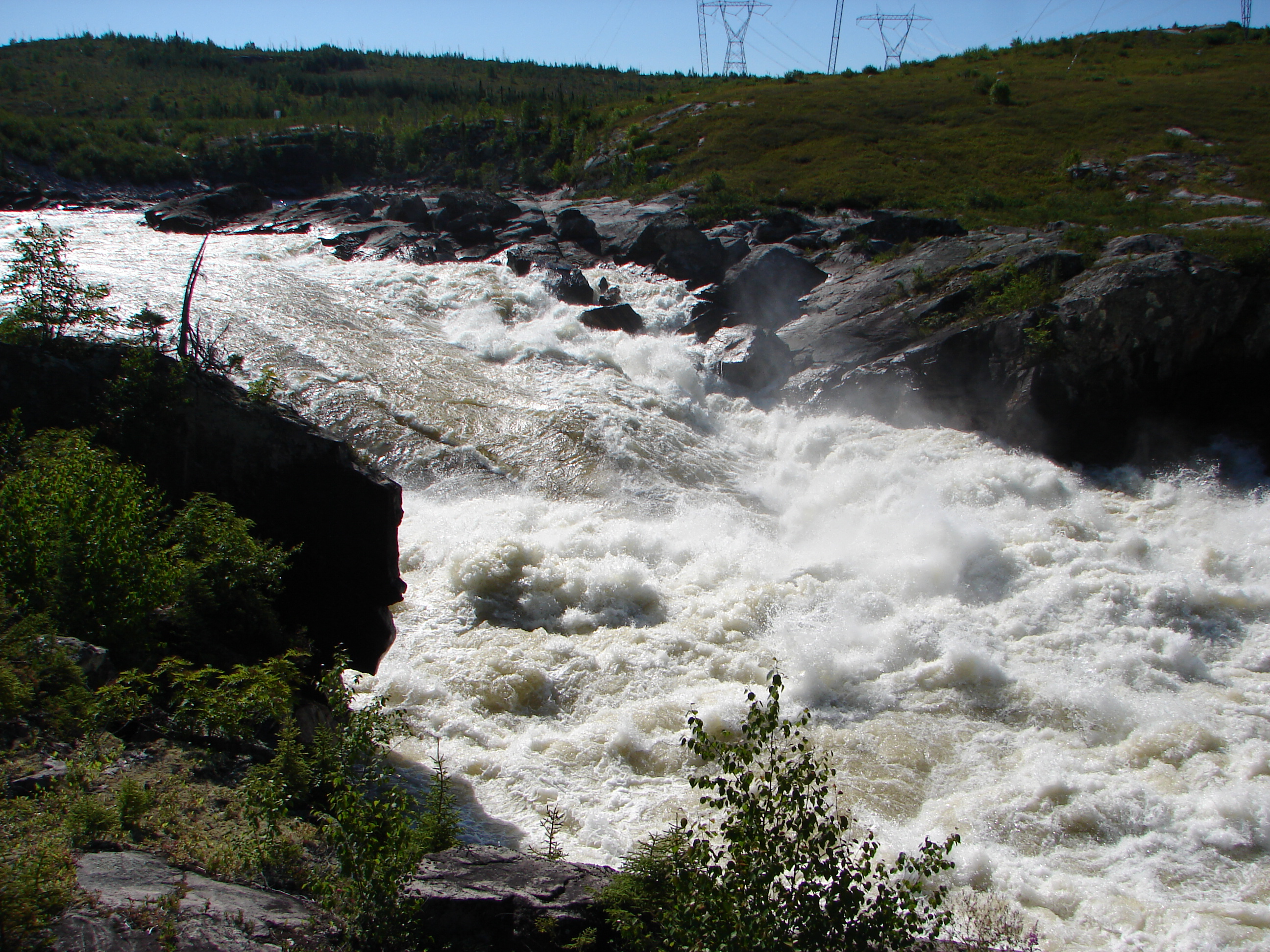 Rupert River at the North Road.